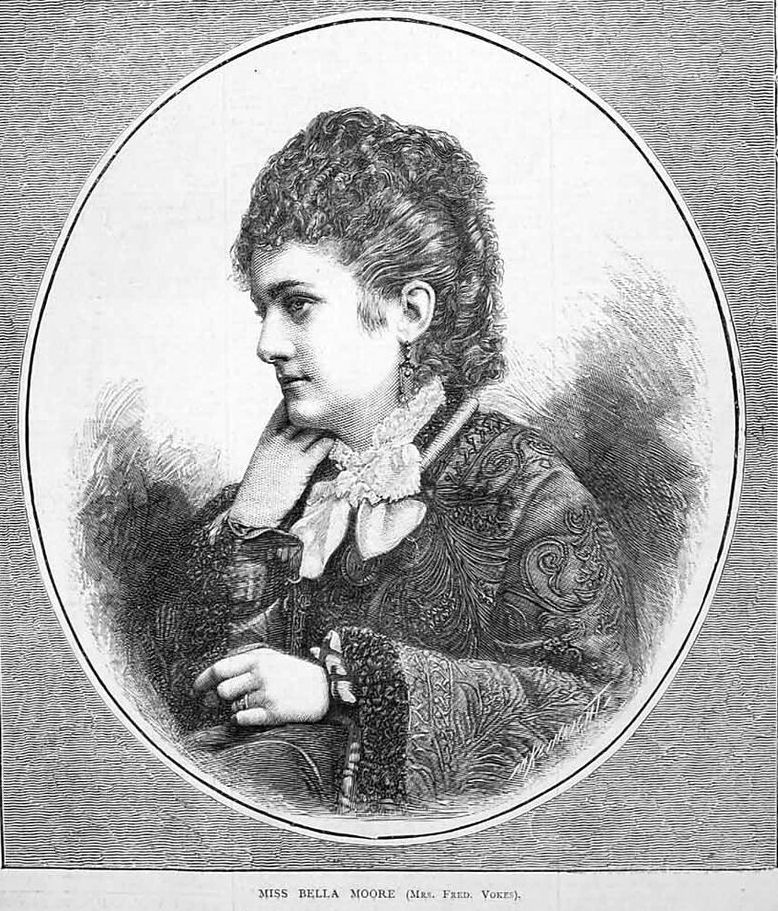 The American actress Bella Vokes nee Moore - 'The Illustrated Sporting and Dramatic News', No 163, Vol VII, 24 March 1877